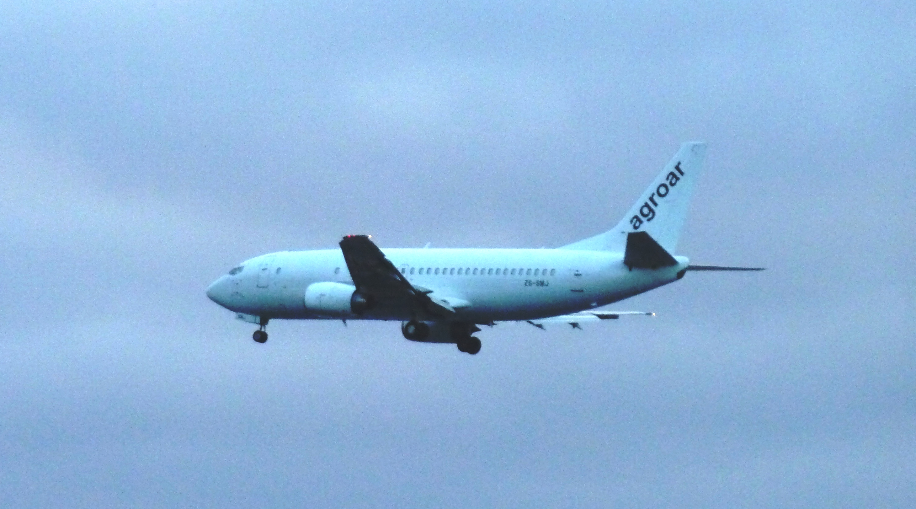 A Agroar Boeing 737-300 with registration ZS-SMJ